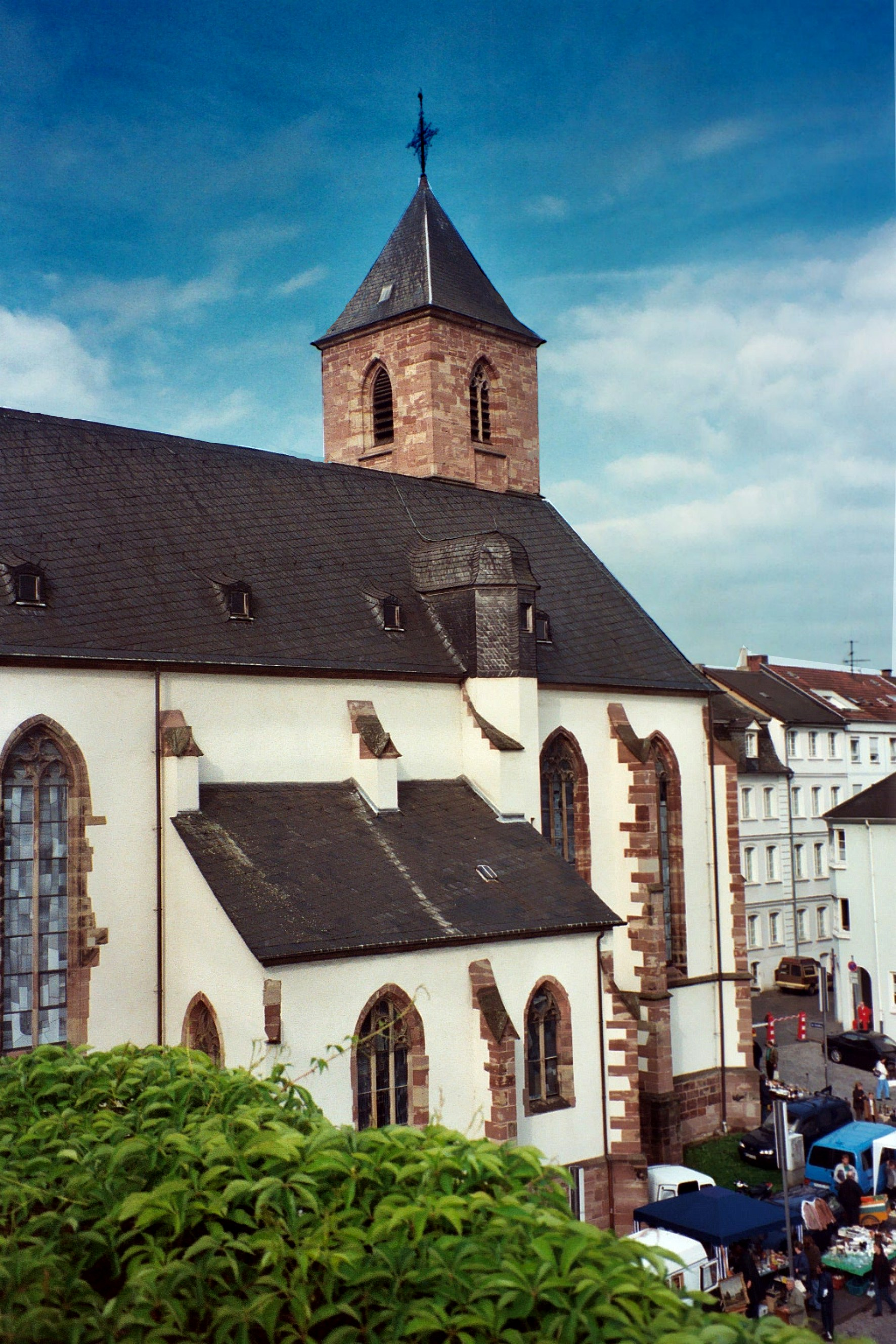 Saarbrücken, the Schlosskirche